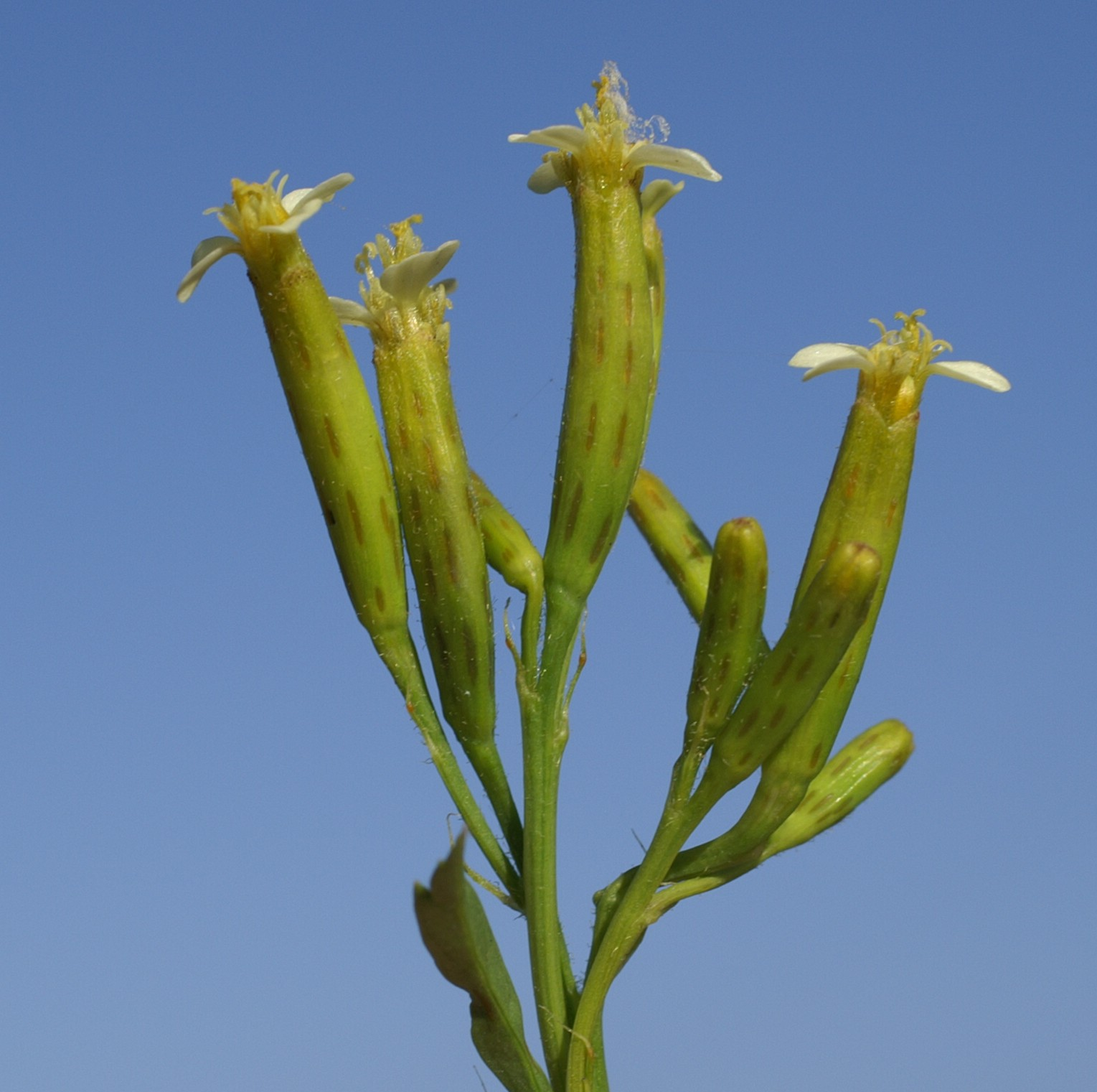 Introduced, warm-season, annual, hairless, erect, aromatic, shallow-rooted herb to 2 m tall. Leaves are mostly opposite, pinnate and to 10 cm long; leaflets are 3–9, narrow-elliptic to lanceolate, 2–8 cm long, finely toothed and gland-dotted. Flowerheads consist of heads borne in dense terminal panicles. Heads are elongate; involucral bracts are almost completely fused into a tube, yellow-green and marked with interrupted streaks. Ray florets are 2–4, ligulate and yellow. Disc florets are 4-5, tubular and greenish. Flowering is in summer and autumn. A native of South America, it grows on roadsides, disturbed sites, riverbanks and in woodlands. Unpalatable. Plants stink when crushed. May cause facial irritation to stock. Plant oil extracts were used in insect repellents. Control by slashing, hand pulling, developing dense ground cover and registered herbicides.